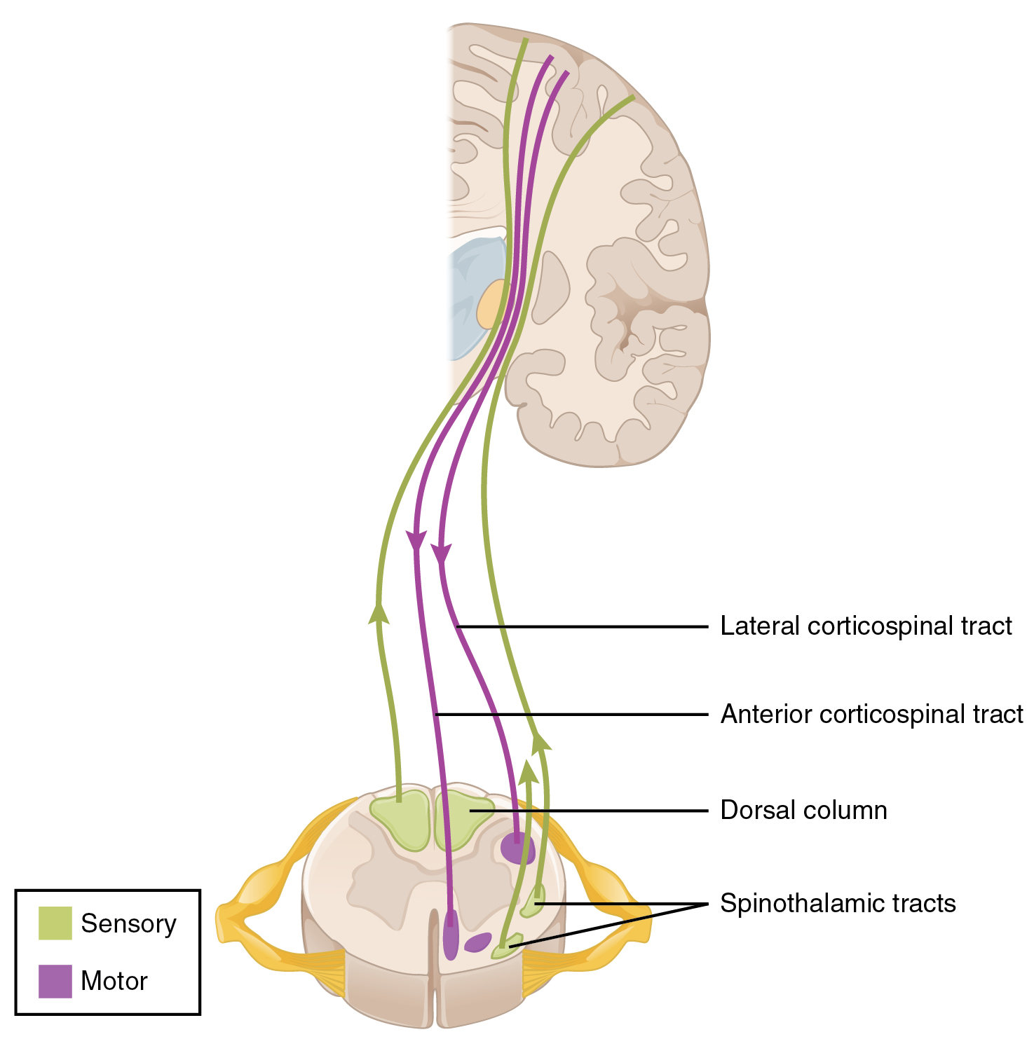 Illustration from Anatomy & Physiology, Connexions Web site. Jun 19, 2013.